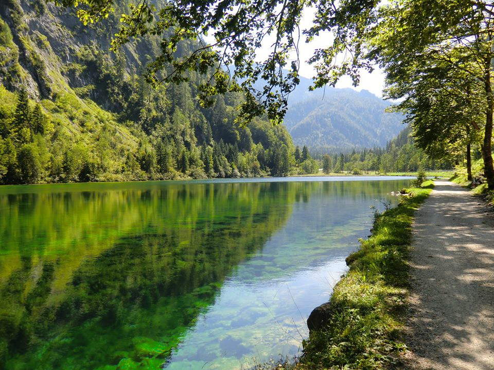 The Förchensee near Seehaus south of Ruhpolding, Upper Bavaria.